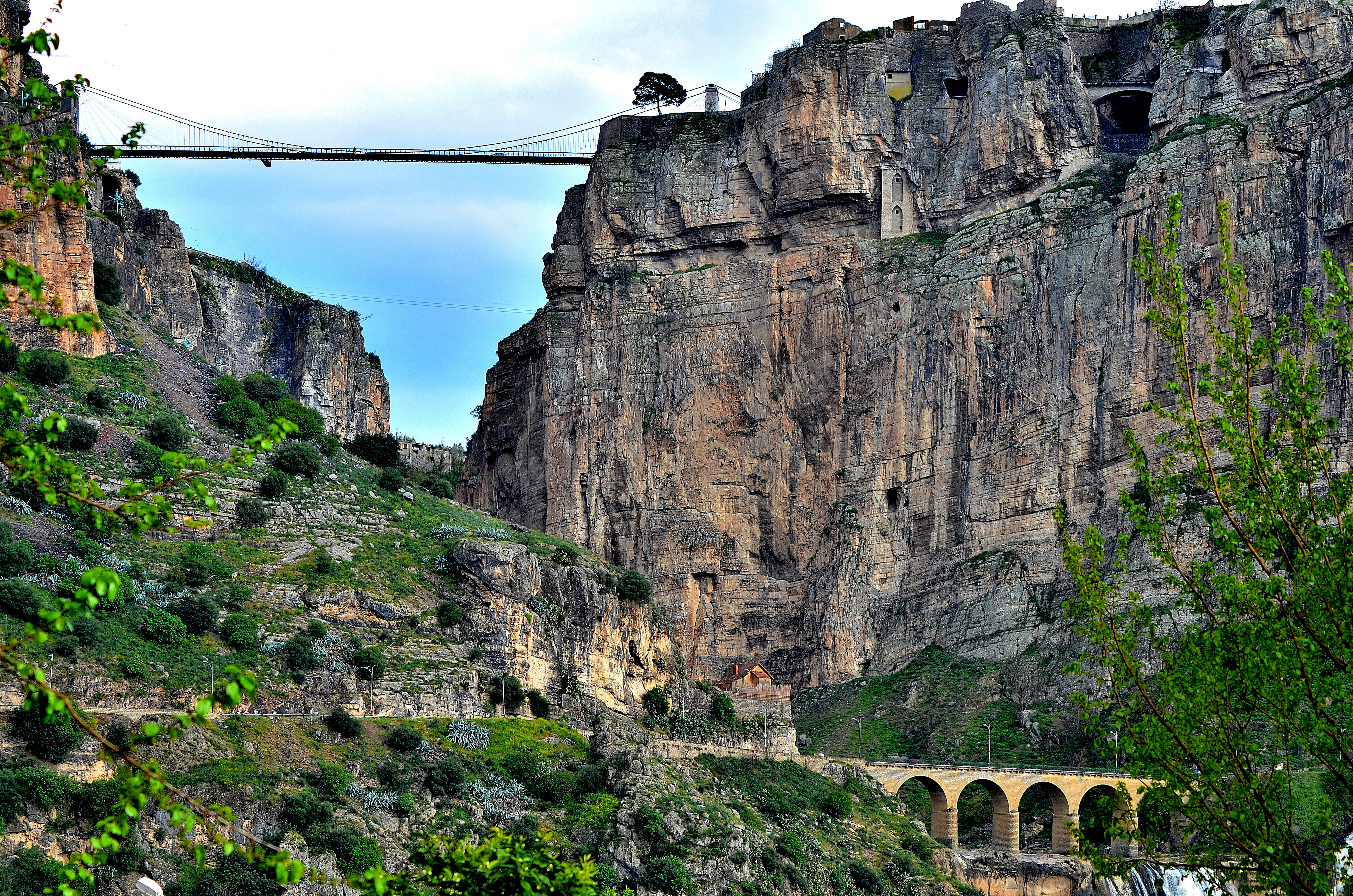 Rhumel canyon with three bridges in Constantine